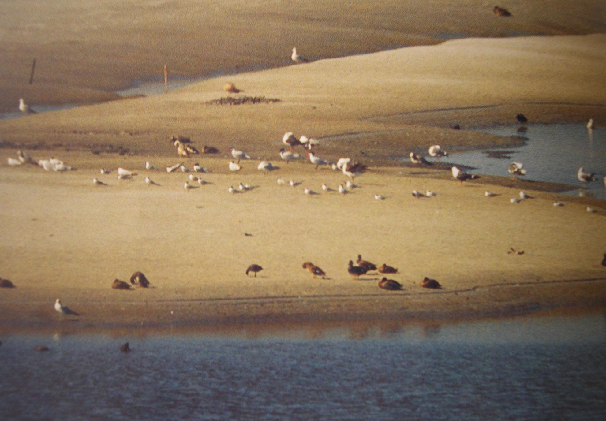 Least terns and snowy plovers nesting at Batiquitos Lagoon, Carlsbad, California.